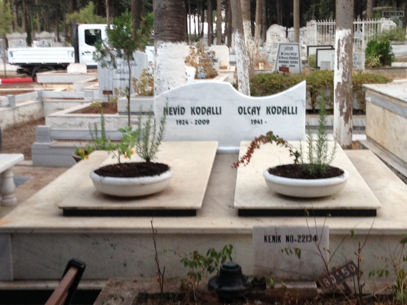 The grave of Turkish composer Nevit Kodallı at the General Cemetery in Mersin. This is one of the rare graveyards in which people of different religions lie side by side (not in sectors, randomly).